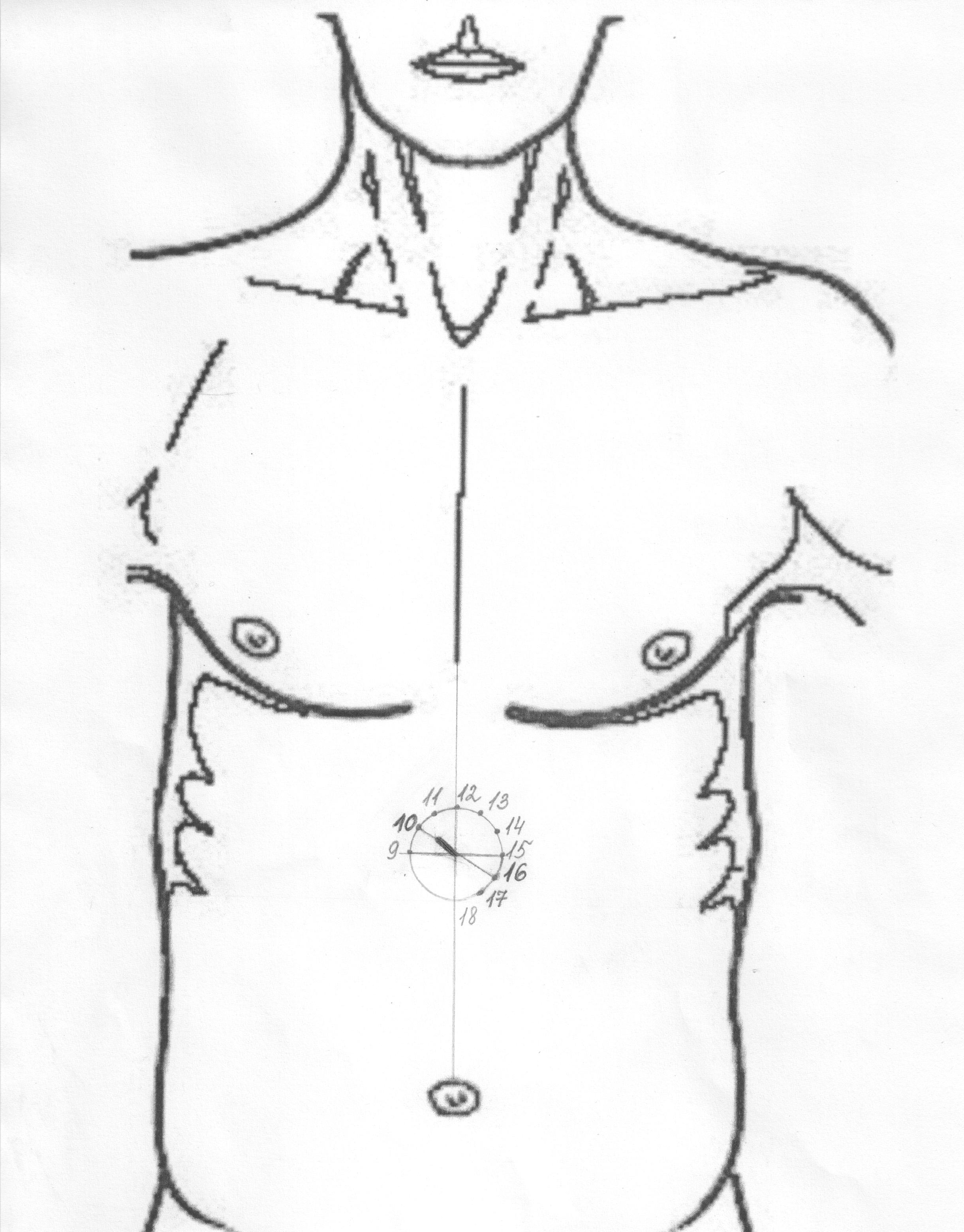 Живот с циферблатом